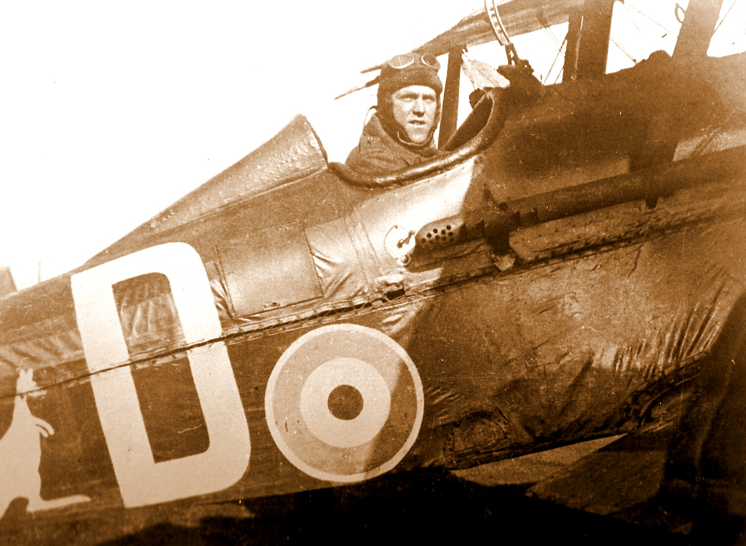 John Gordon at the controls of his SE5a, France, 1918.